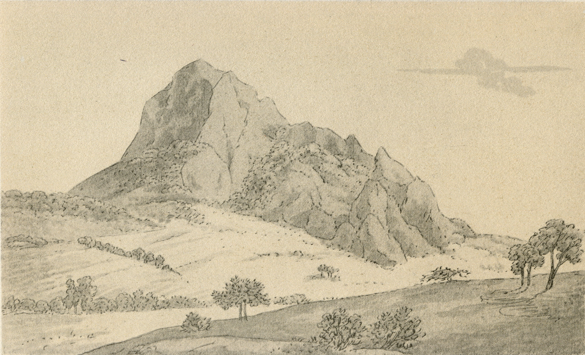 The Bořeň (in German Borschen) is a 539 m high Phonolite monolith south of Bílina (Bilin) in the Central Bohemian Uplands Goethe did the drawing end of August 1810. Sheet 21 of the 22 Blätter.